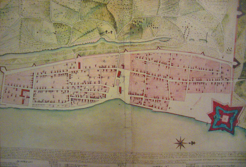 When St. Augustine was transferred from Spanish to British rule in 1764, Elixio de la Puente made this map of the town's properties to assist their conveyance to the incoming English.